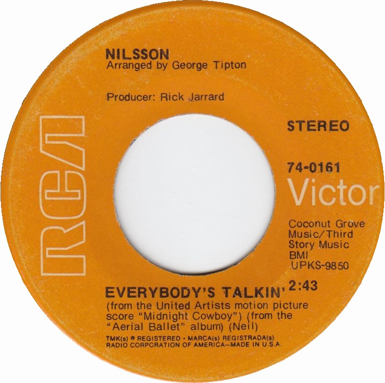 "Everybody's Talkin'" by Harry Nilsson (credited as Nilsson); A-side label of 1969 US vinyl rerelease